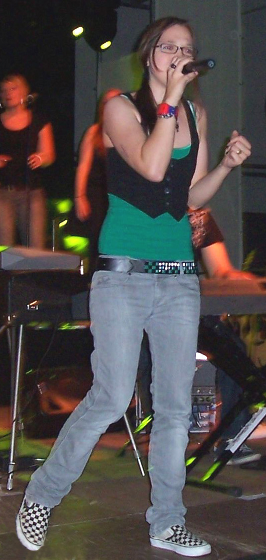 the Swiss singer Stefanie Heinzmann at a concert in Gießen, Germany (November 14, 2008)